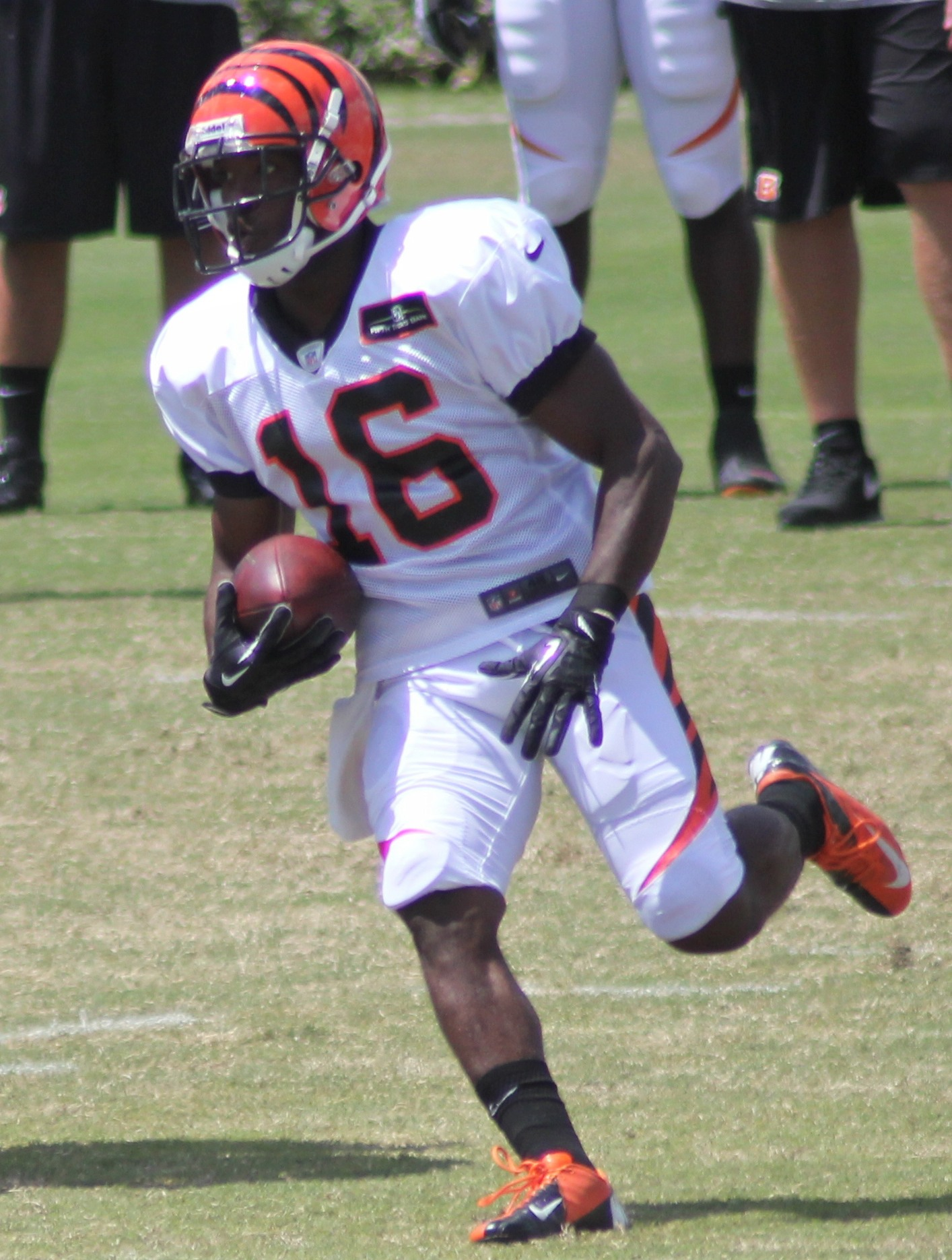 Cincinnati Bengals wide receiver, Andrew Hawkins, at 2013 training camp.